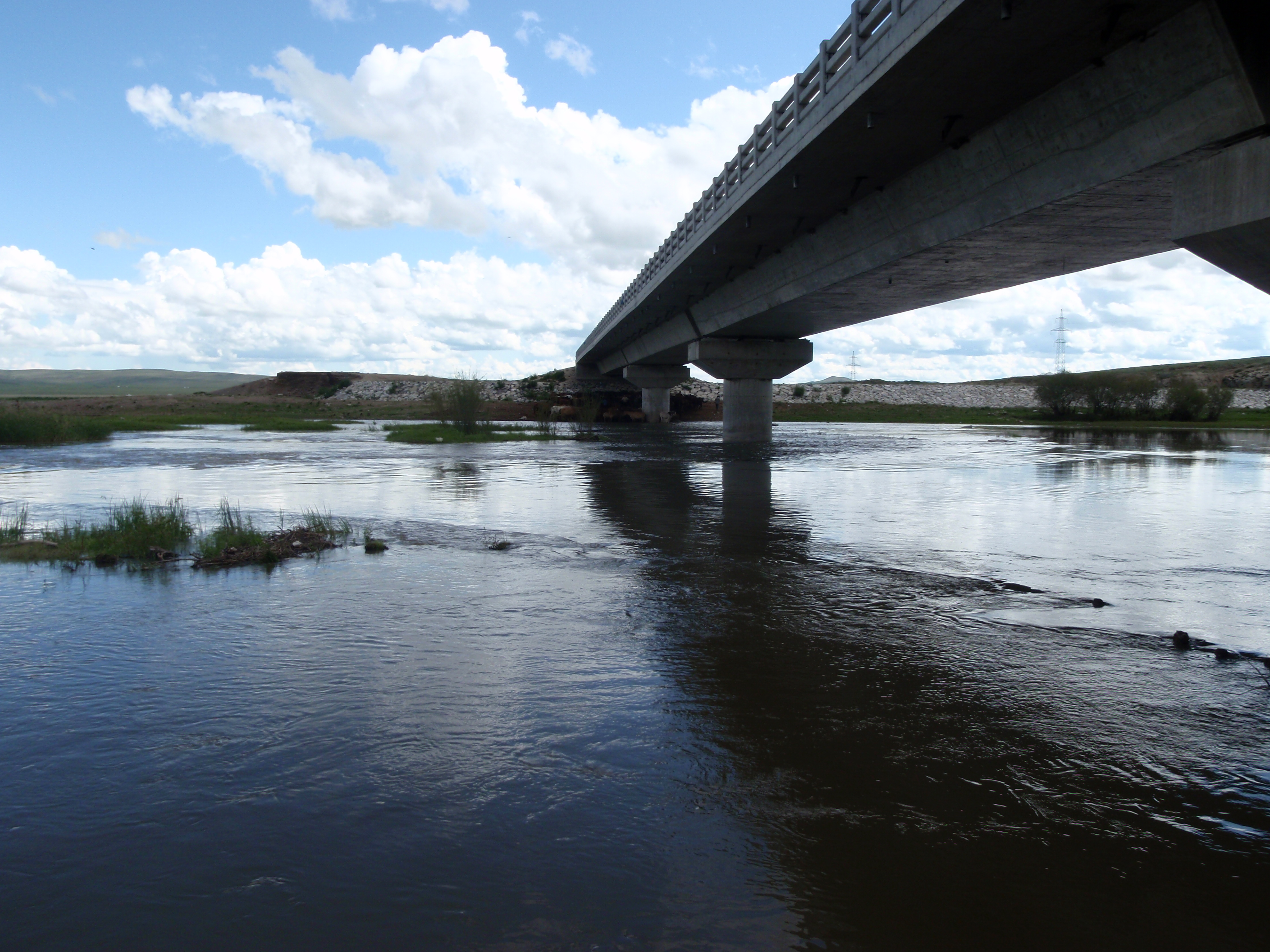 Orchon River in Mongolia - between Erdenet and Darchan